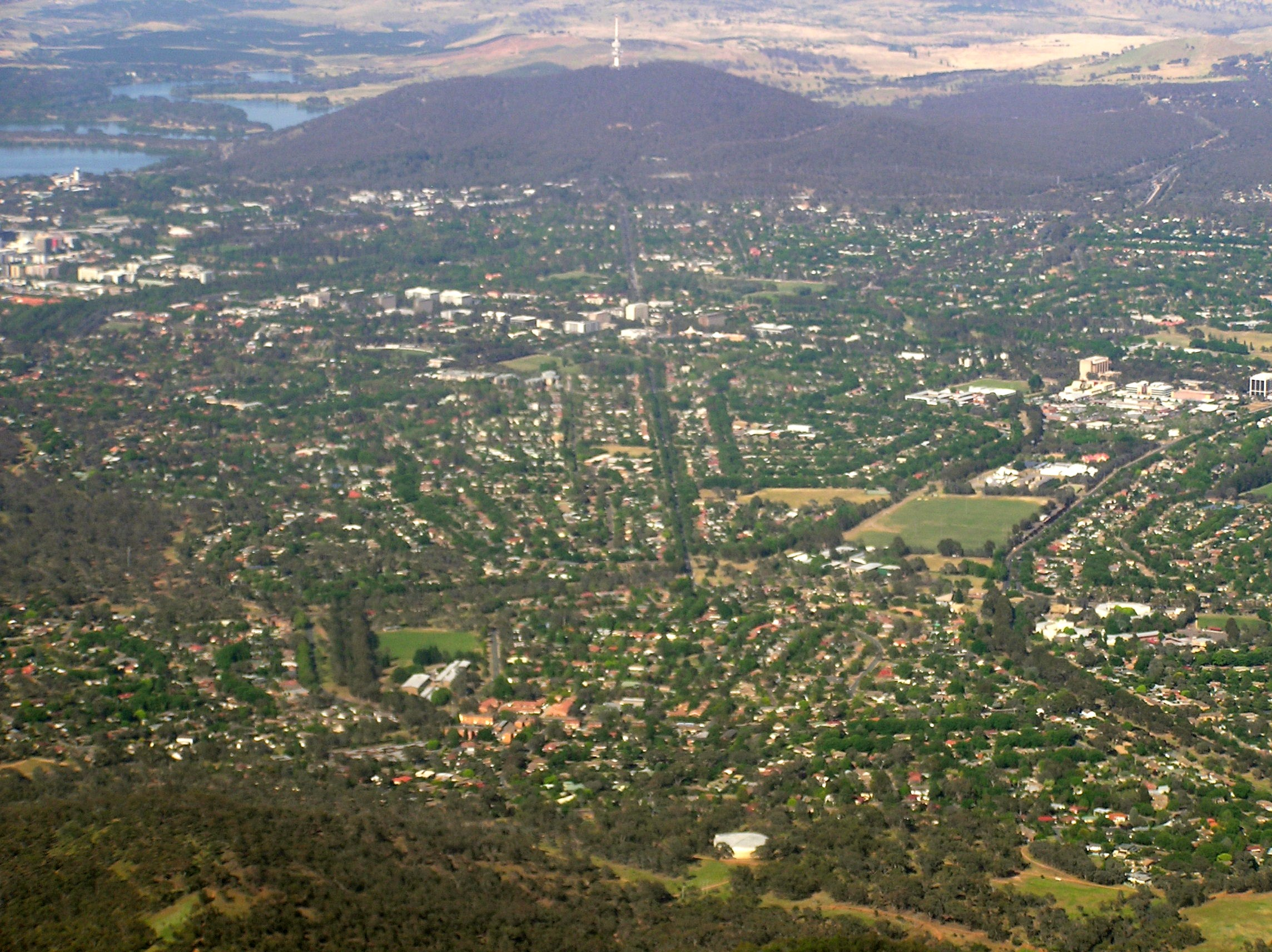 Aerial view of Hackett Australian Capital Territory from east, Majura ave and David St form a line heading to Black Mountain. Dickson is on the mid right, part of Ainslie on mid left